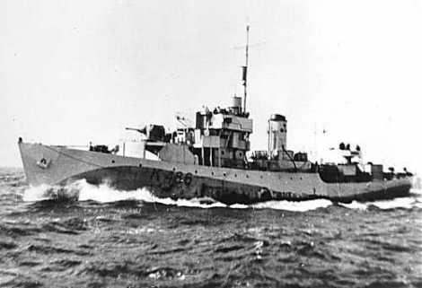 HMCS Forrest Hill